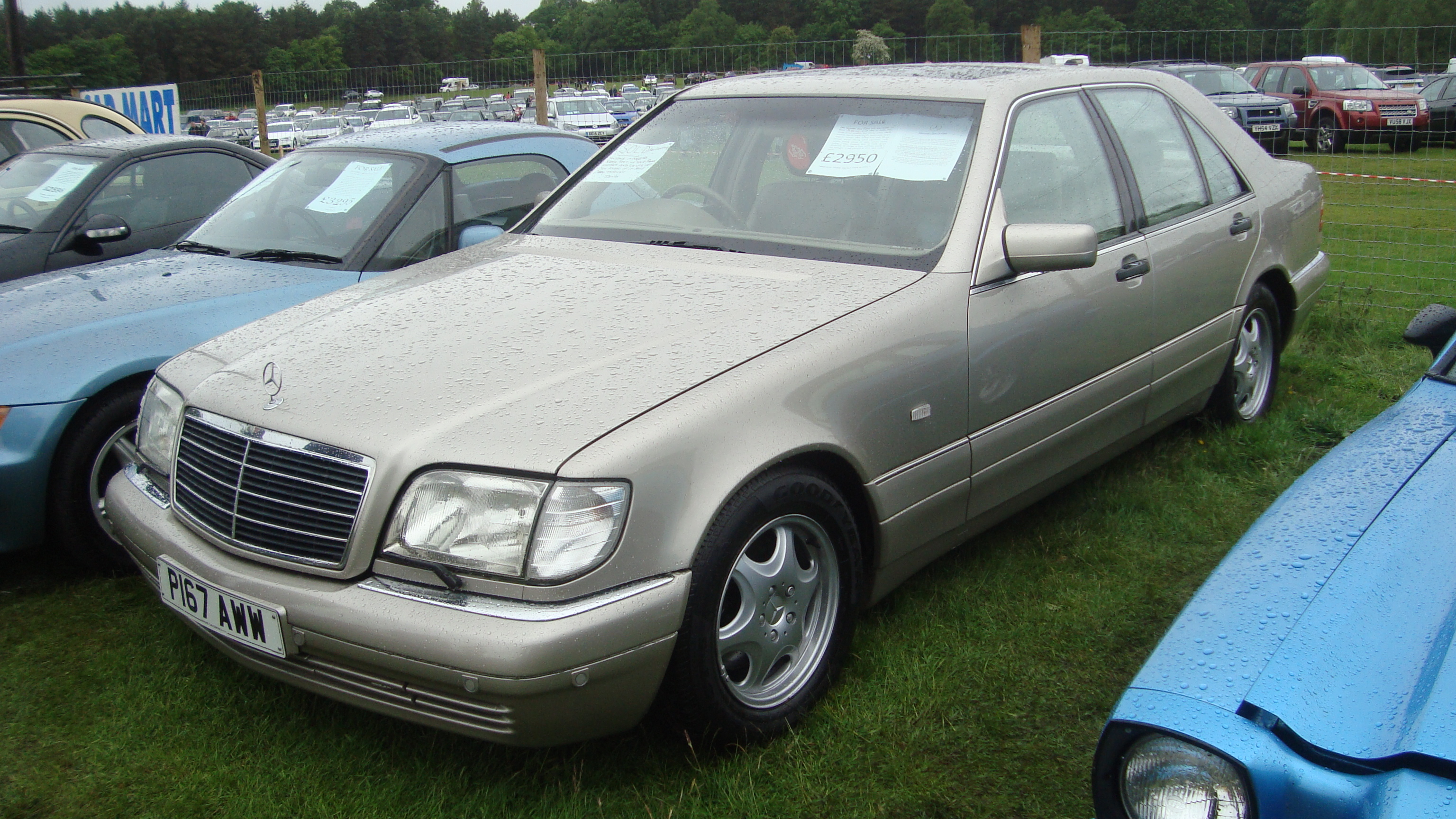 Could write pages about these...